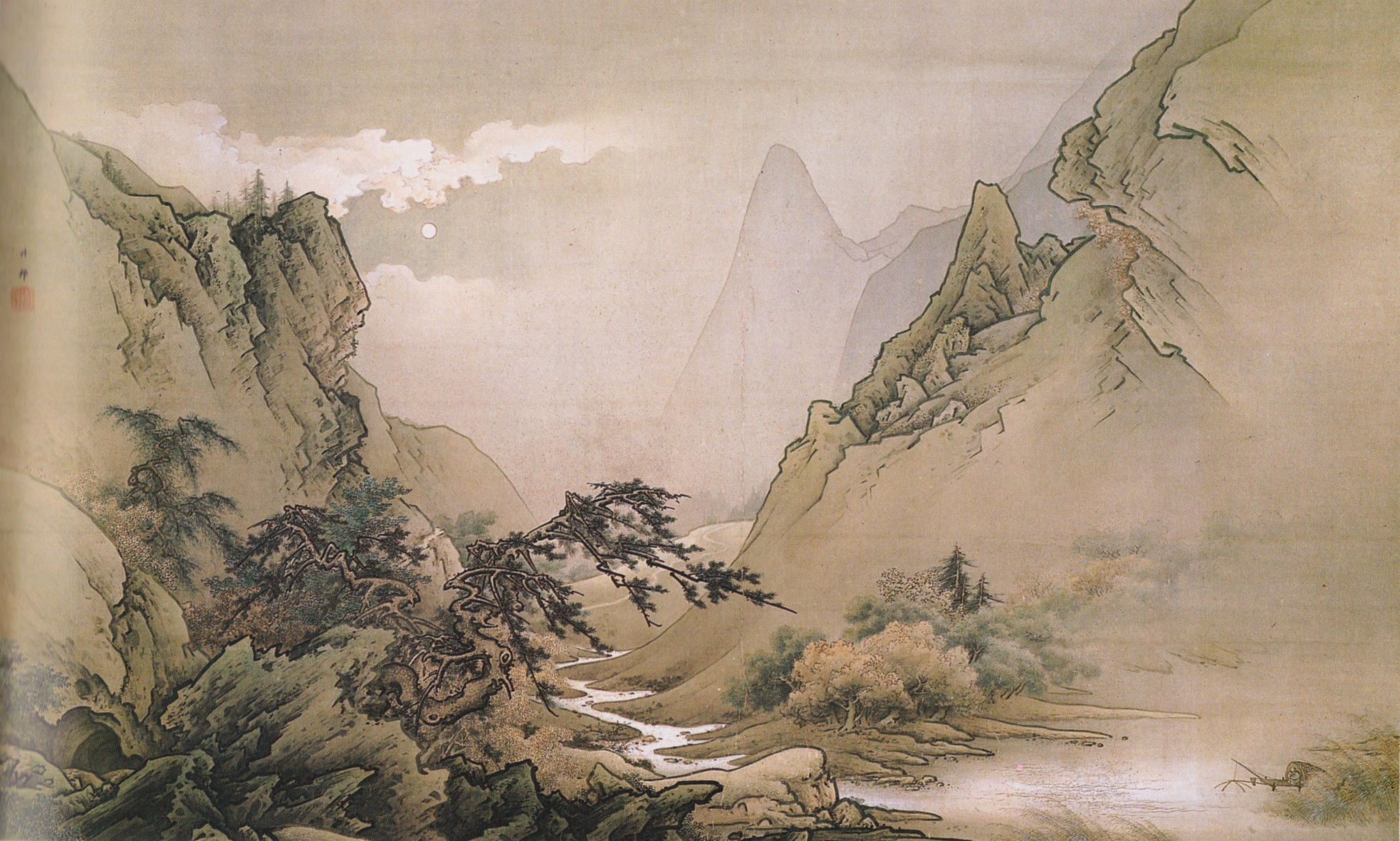 Landscape